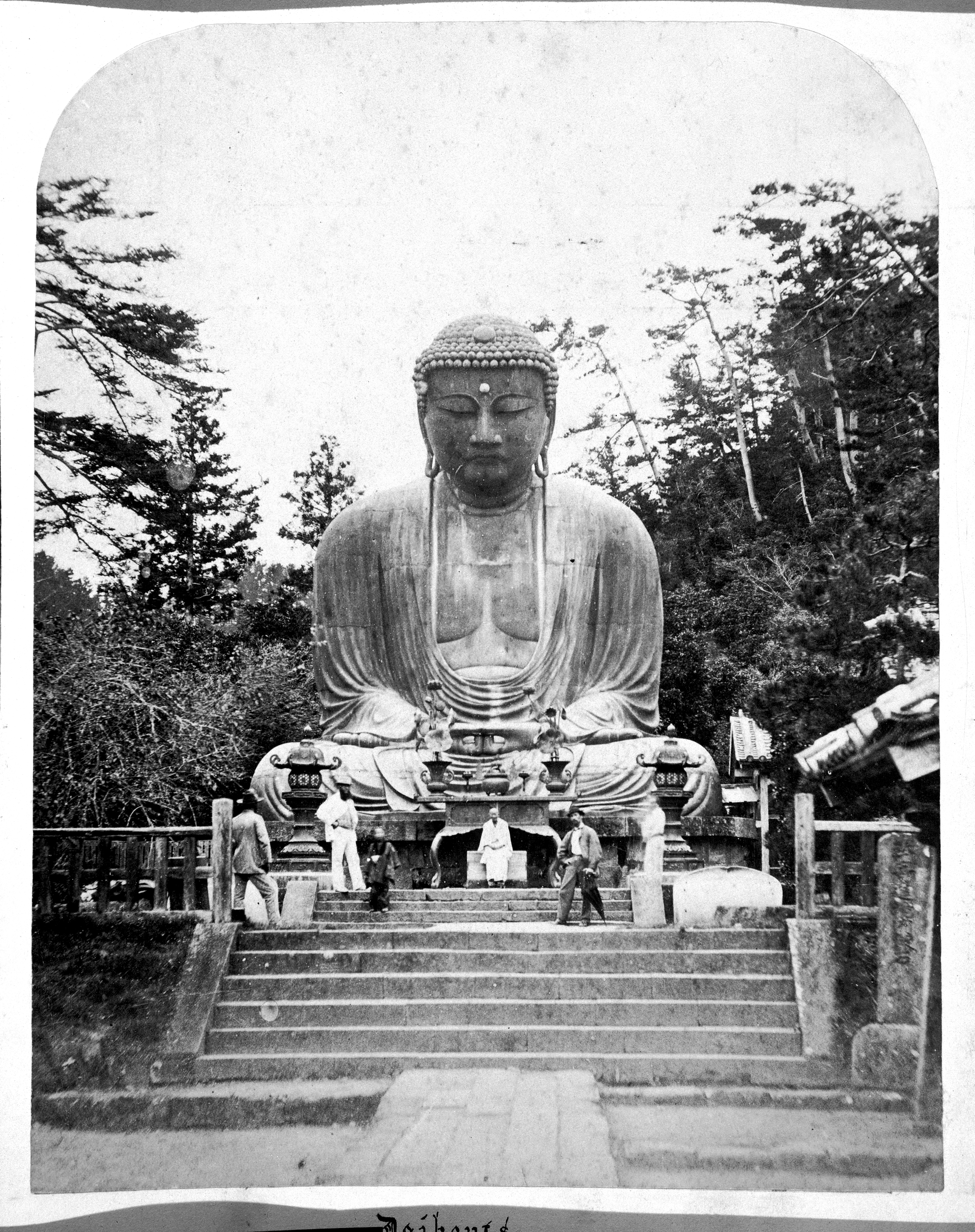 View of the bronze statue of Buddha at Daibouts, near Kamakura, Japan, taken between 1867 and 1869. 1 b&w original photographic print(s). ID: PA1-f-021-058 Find out more about this image from the Alexander Turnbull Library.